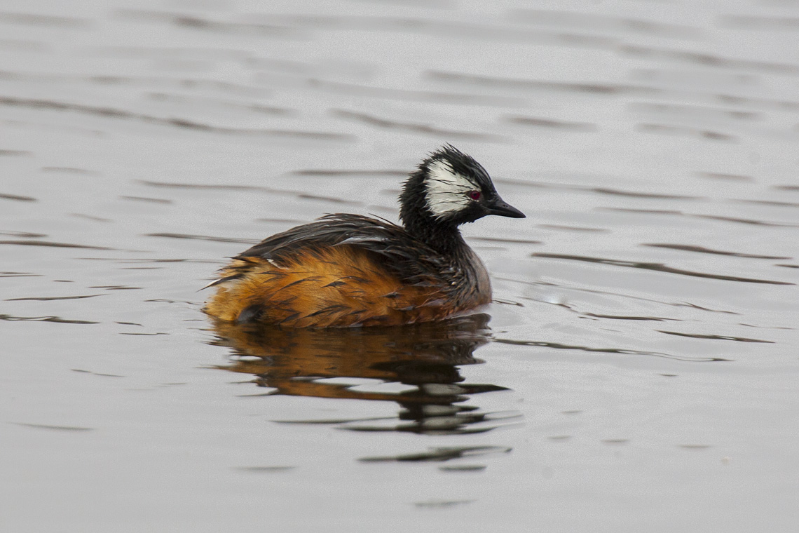 White-tufted Grebe Rollandia rolland, Lima, Peru